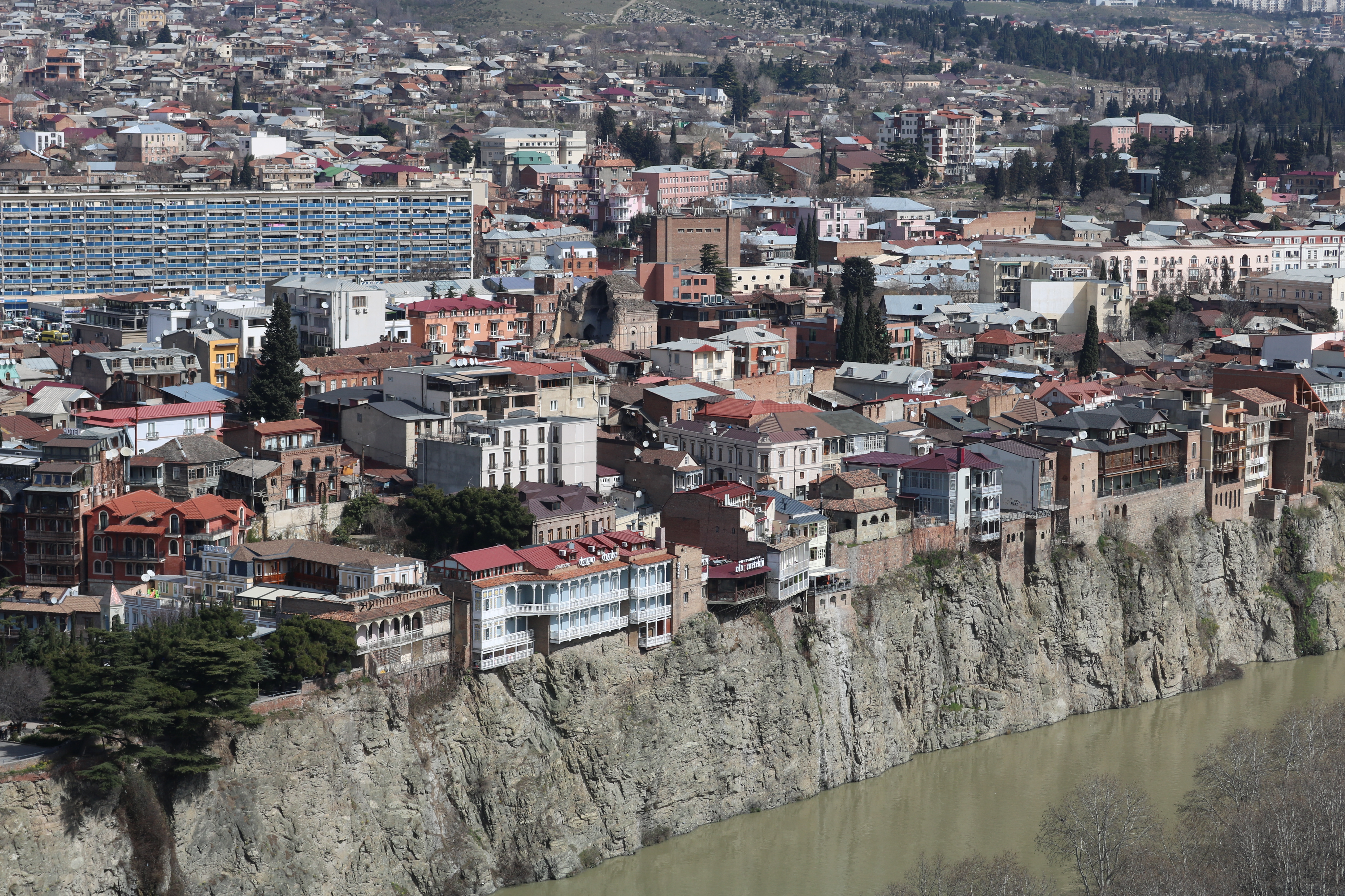 Metekhi from Narikala